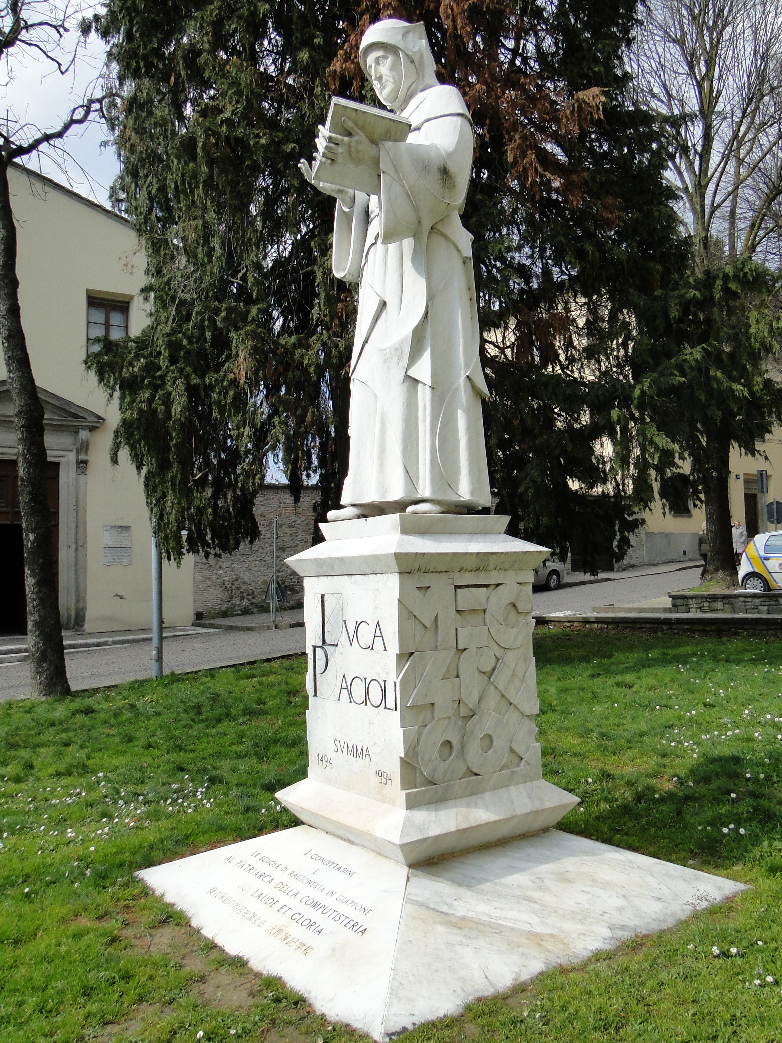 Statue of Luca Pacioli in Sansepolcro